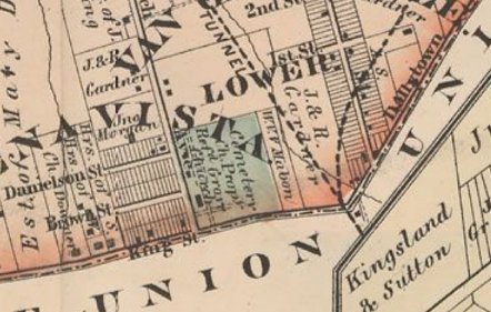 Section of map showcasing Grove Church Cemetery.